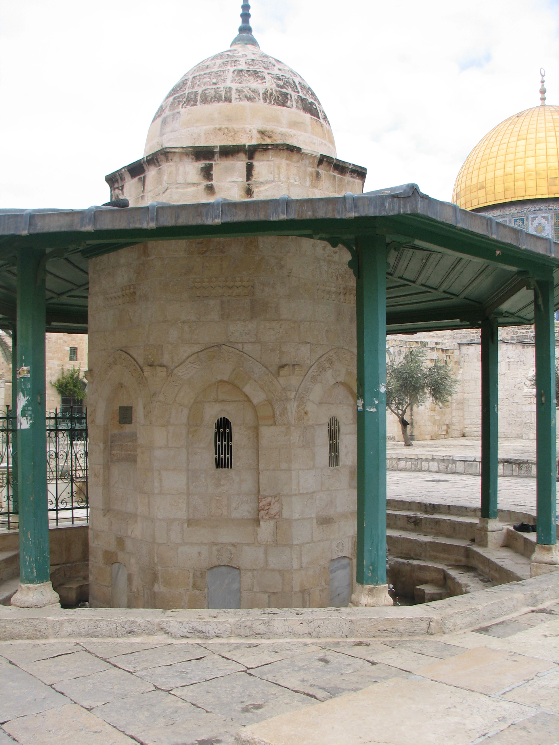 Al-Aqsa Mosque